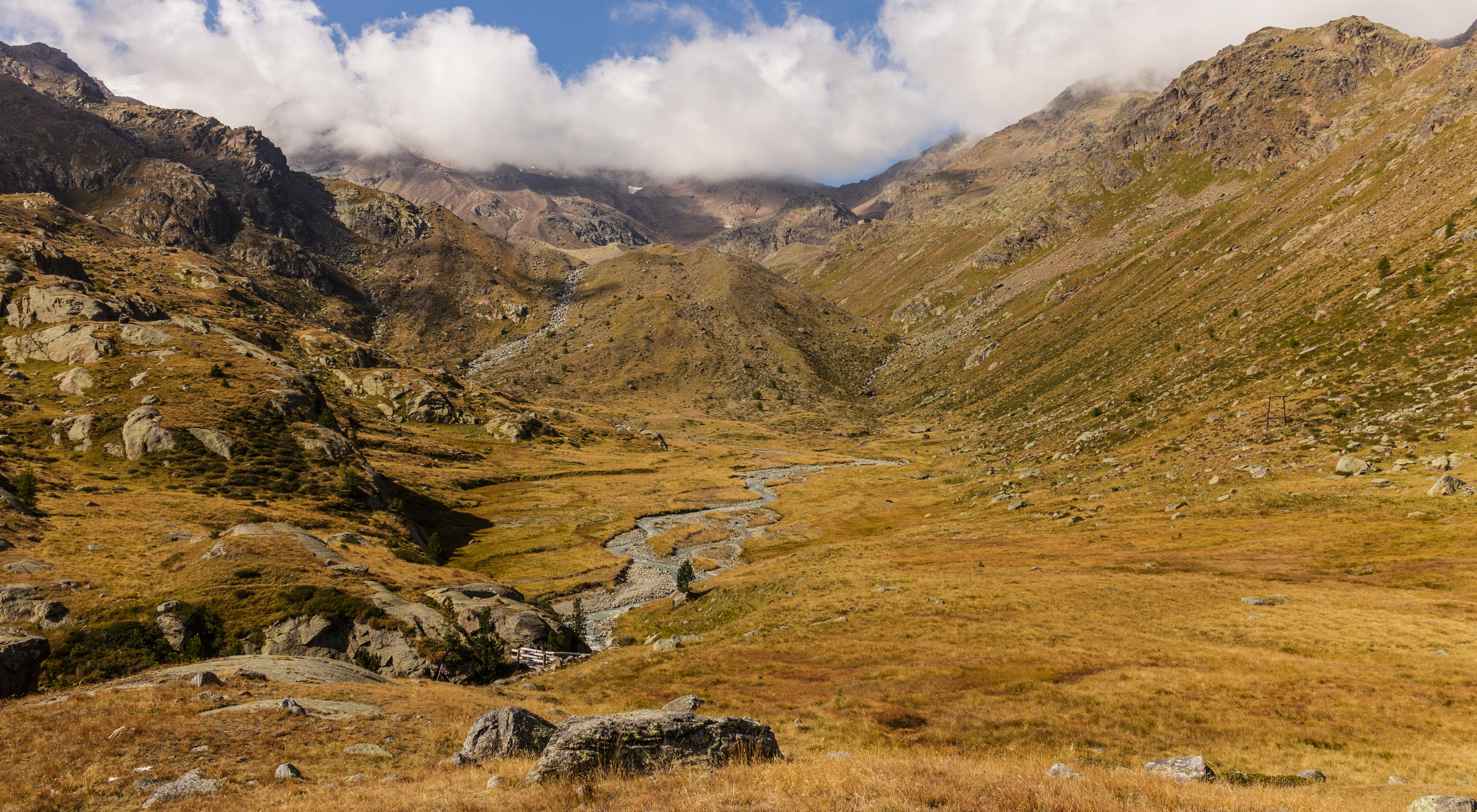 Mountain hiking of parking in power station Malga Mare to Lago Lungo (2553m). View over Val di Venezia from Posto Avvistamento Pian Venezia (2283m).